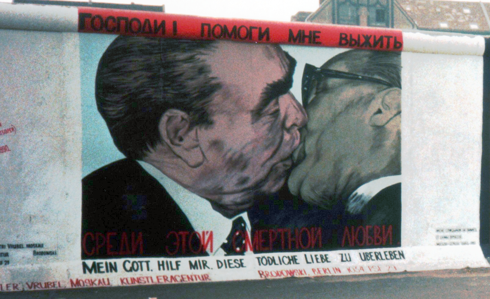 A segment of the Berlin Wall with the graffiti painting My God, Help Me to Survive This Deadly Love. (3 of 4)